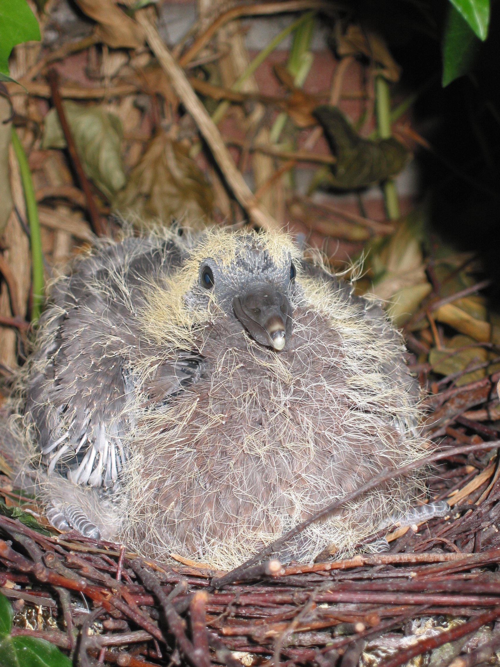 Columba palumbus young bird